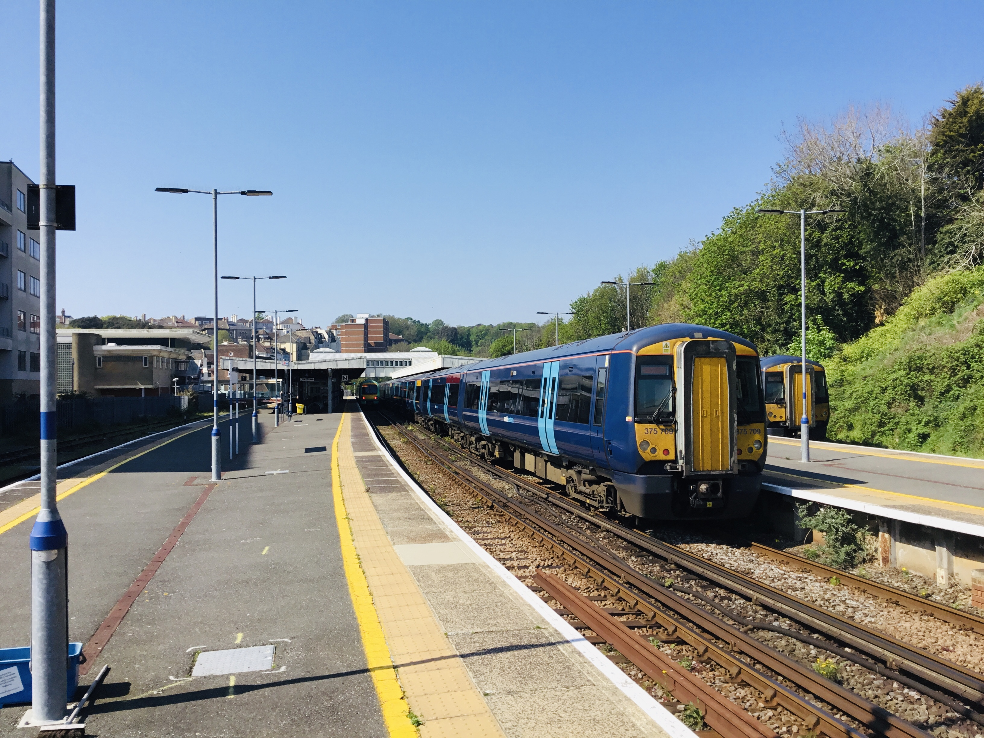 The platforms at Hastings railway station, looking west towards Eastbourne and Tunbridge Wells. 375 709 and 375 611 are standing at platforms 3 and 4 respectively, forming the rear sets of their respective Southeastern services to London Charing Cross via Tunbridge Wells, while a Southern 171 722 is standing at the far end of platform 2 forming a service from Ashford International to Eastbourne. Platform 1, to the far left, is an Ashford-facing bay platform and thus it is rarely used by scheduled passenger services.